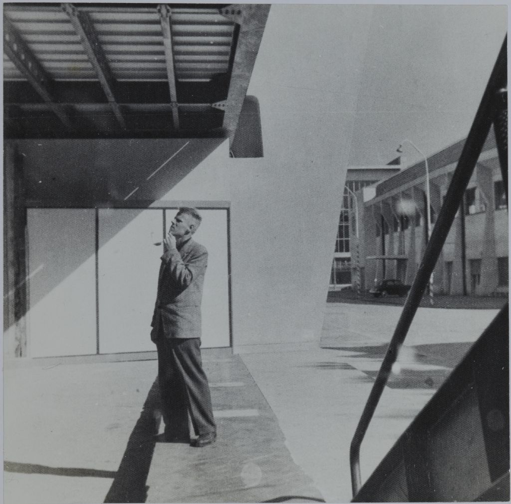 Photograph of the Finnish designer Oiva Toikka (1931–2019) during his trip to Italy.